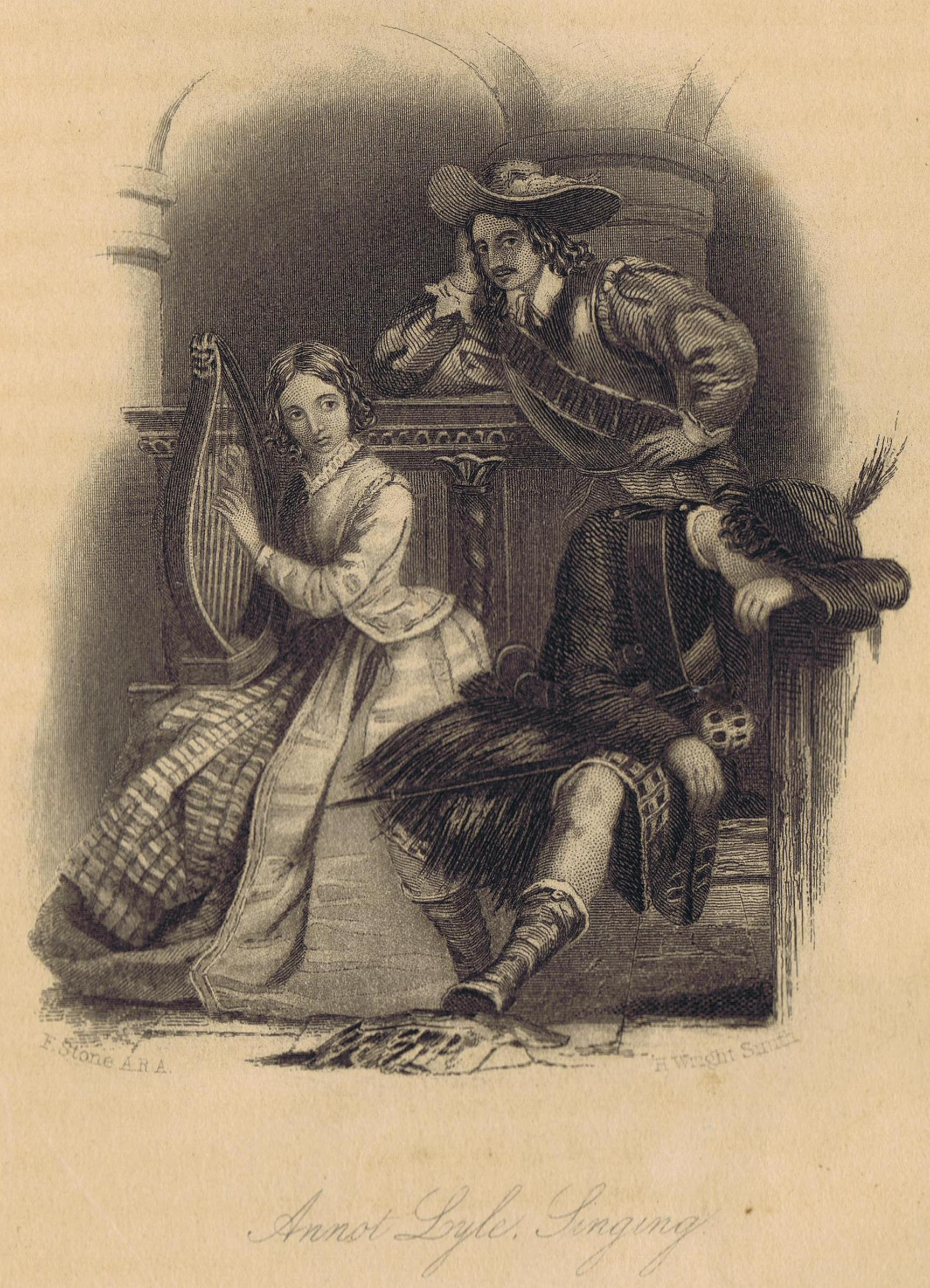 A Legend of Montrose illustration. From 1872 edition published by James R. Osgood and Company, Boston